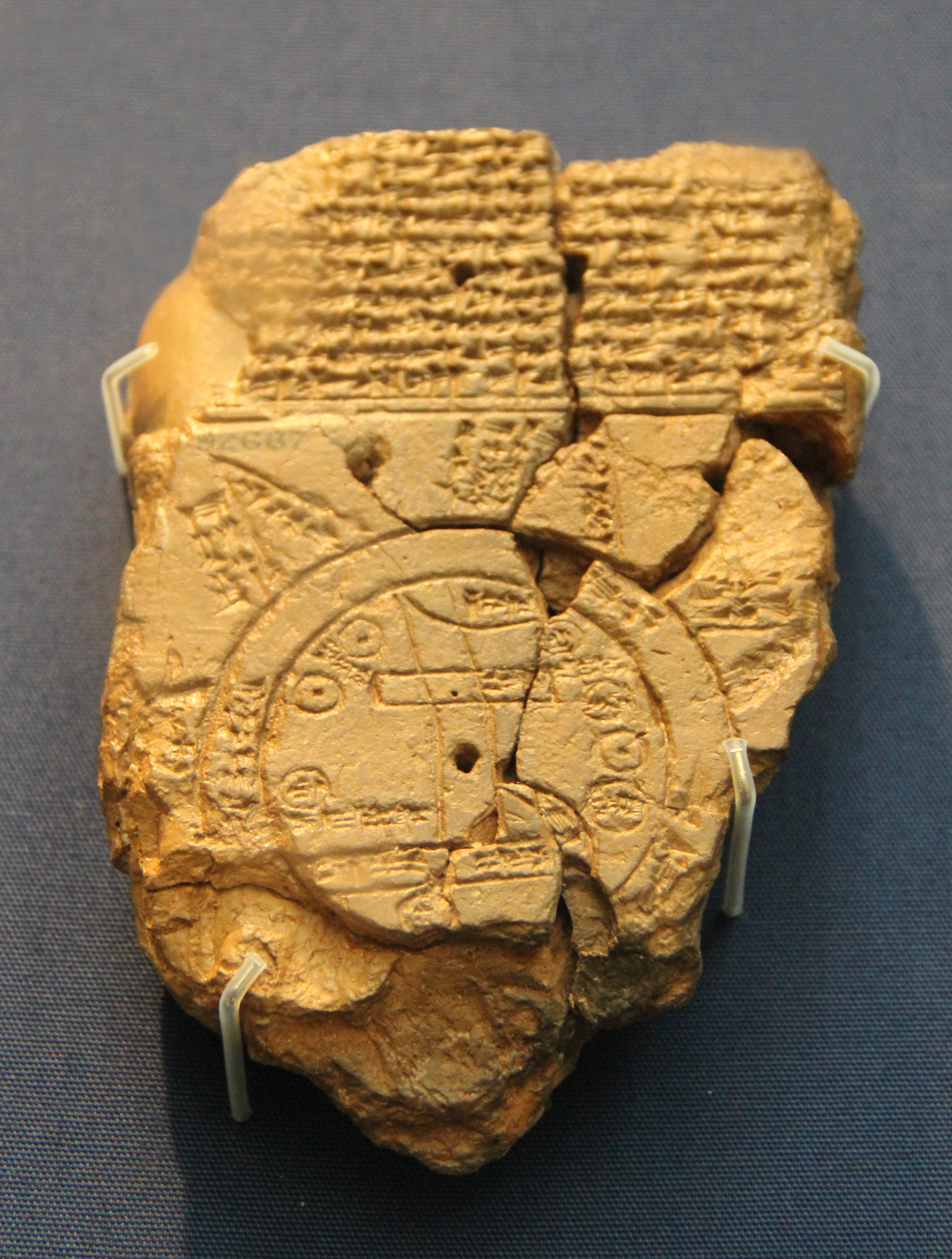 Babylonian Map of the World, 700-500 BC Mesopotamia 1500-539 BC Gallery, British Museum, London, England, UK. Complete indexed photo collection at .